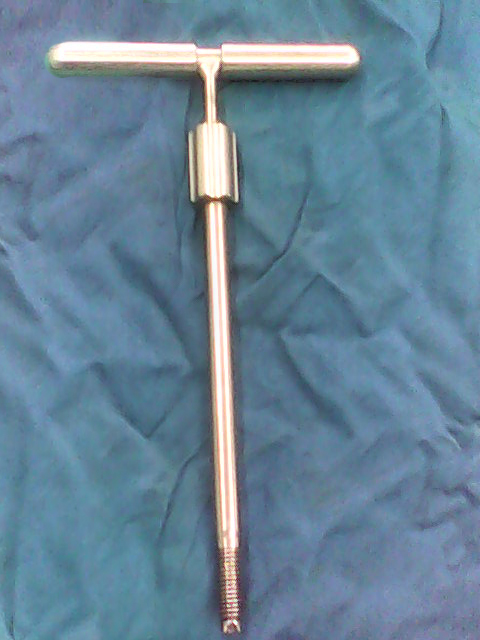 A surgical tool that can be used in orthopedic procedures